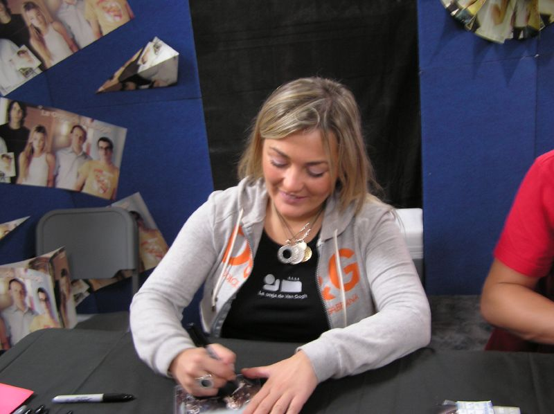 Amaya Montero firmando mi CD